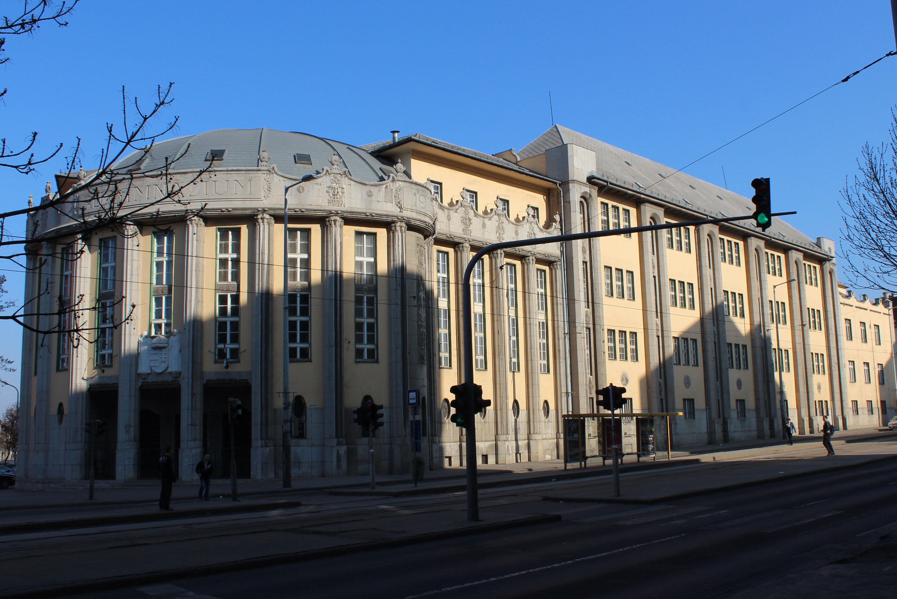 Szent László High School in Budapest District X